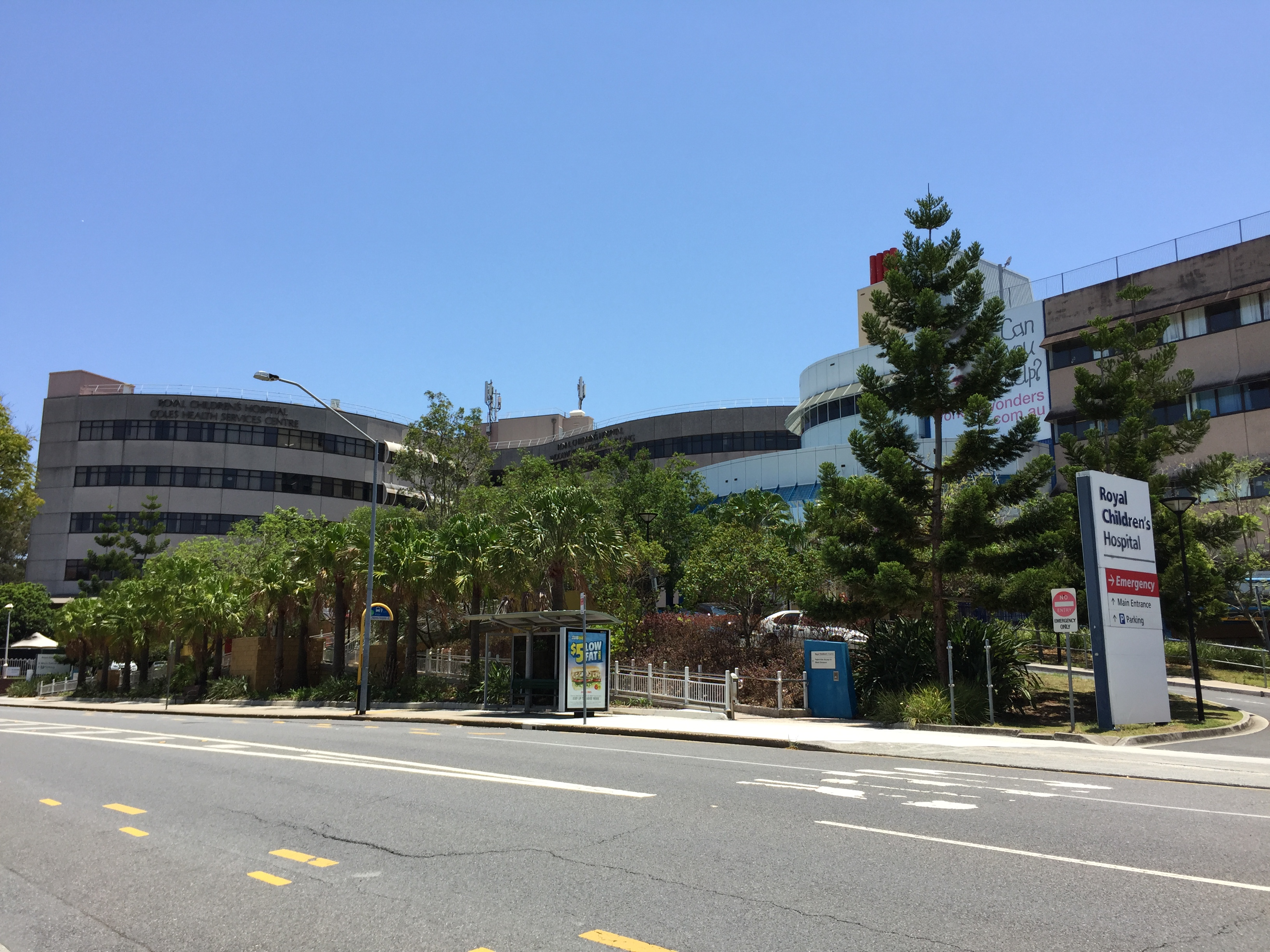 Former Royal Children's Hospital, Herston located at Herston Road, Herston, Queensland. Hospital closed down in November 2014.